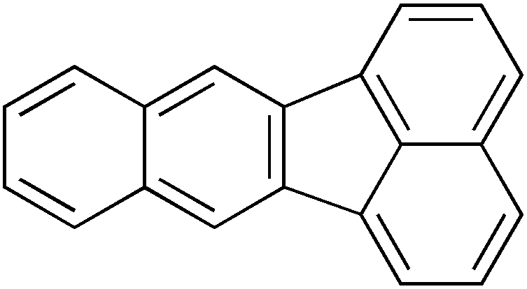 Skeletal structure of the benzo[k]fluoranthene molecule.